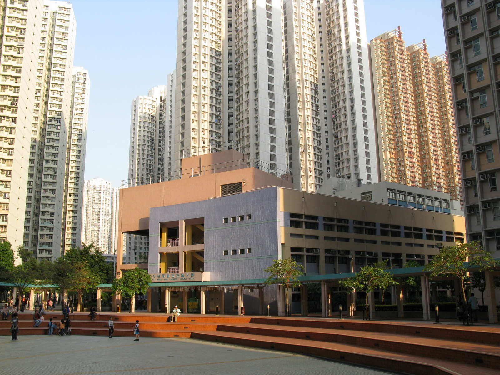 Tin Chung Court Ancillary Facilities Block